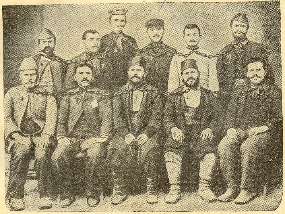 Prisoners from Prilep, Ottoman Macedonia, after the Ilinden-Preobrazhenie uprising